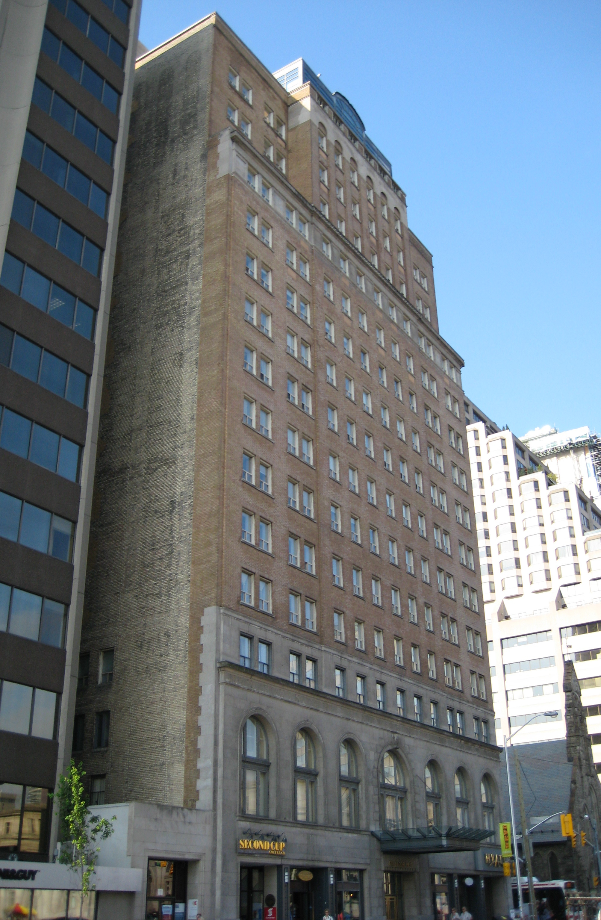 Park Plaza Hotel (Toronto). This portion of the hotel, at the intersection of Bloor Street and Avenue Road, was completed in 1936.